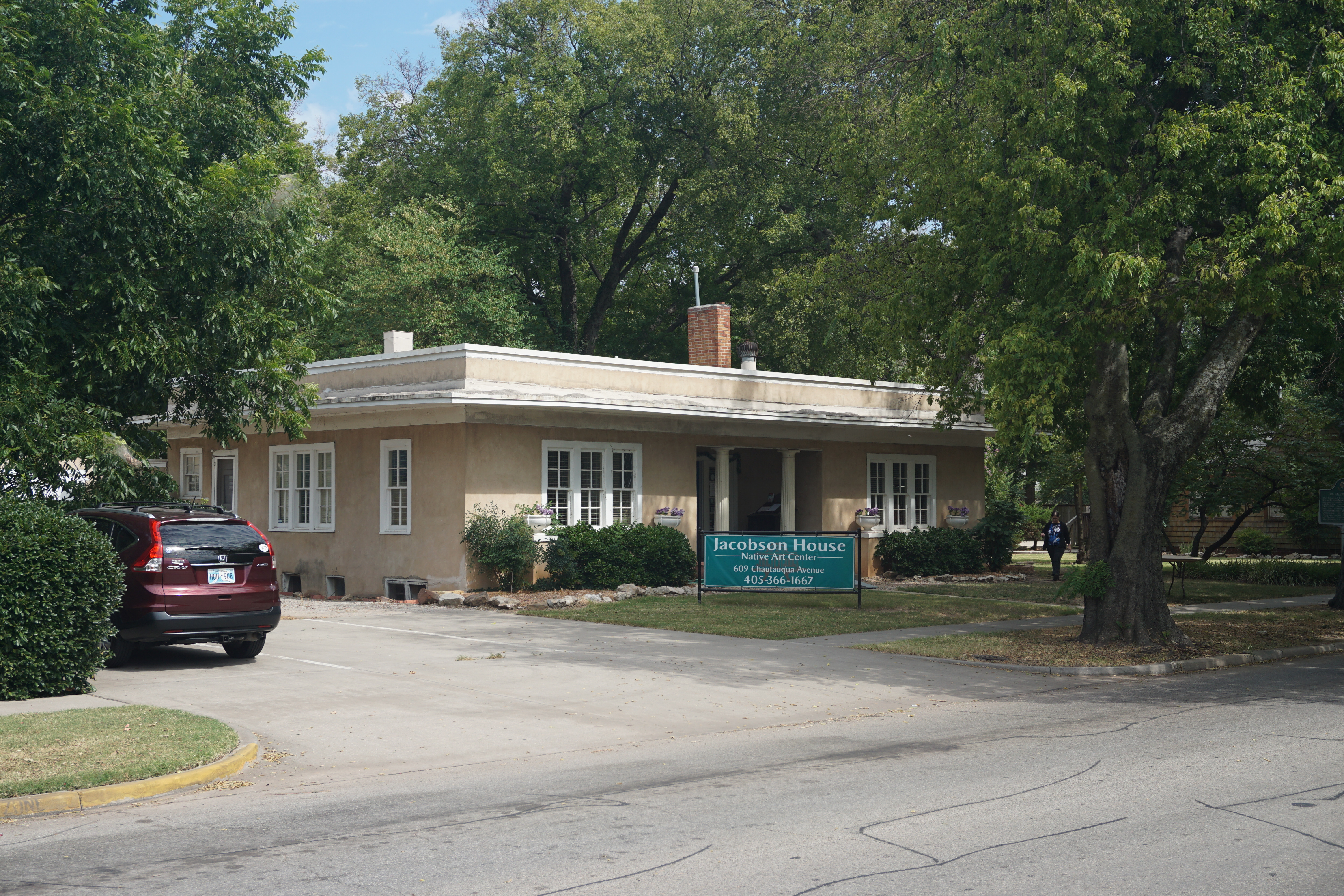 The Oscar B. Jacobson House Native Art Center on the campus of the University of Oklahoma in Norman, Oklahoma (United States).